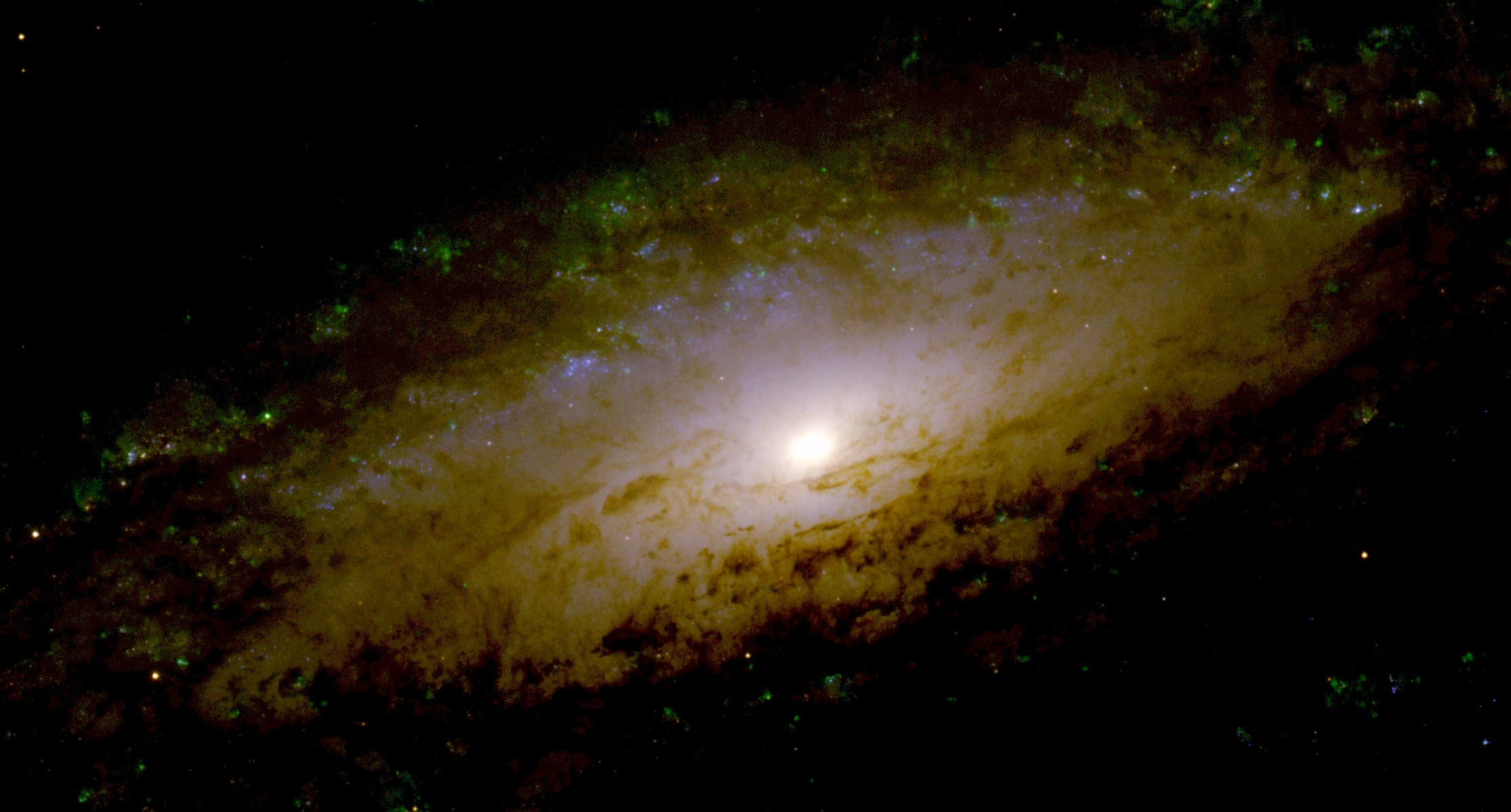 Galaxy NGC 7331 core, by HST (WFC3: 438, 657 and 814 nm).